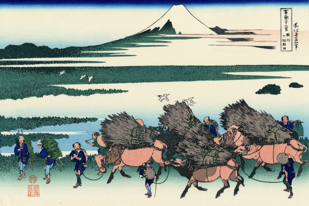 Part of the series Thirty-six Views of Mount Fuji, no. 31.